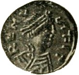 Sigebert I.